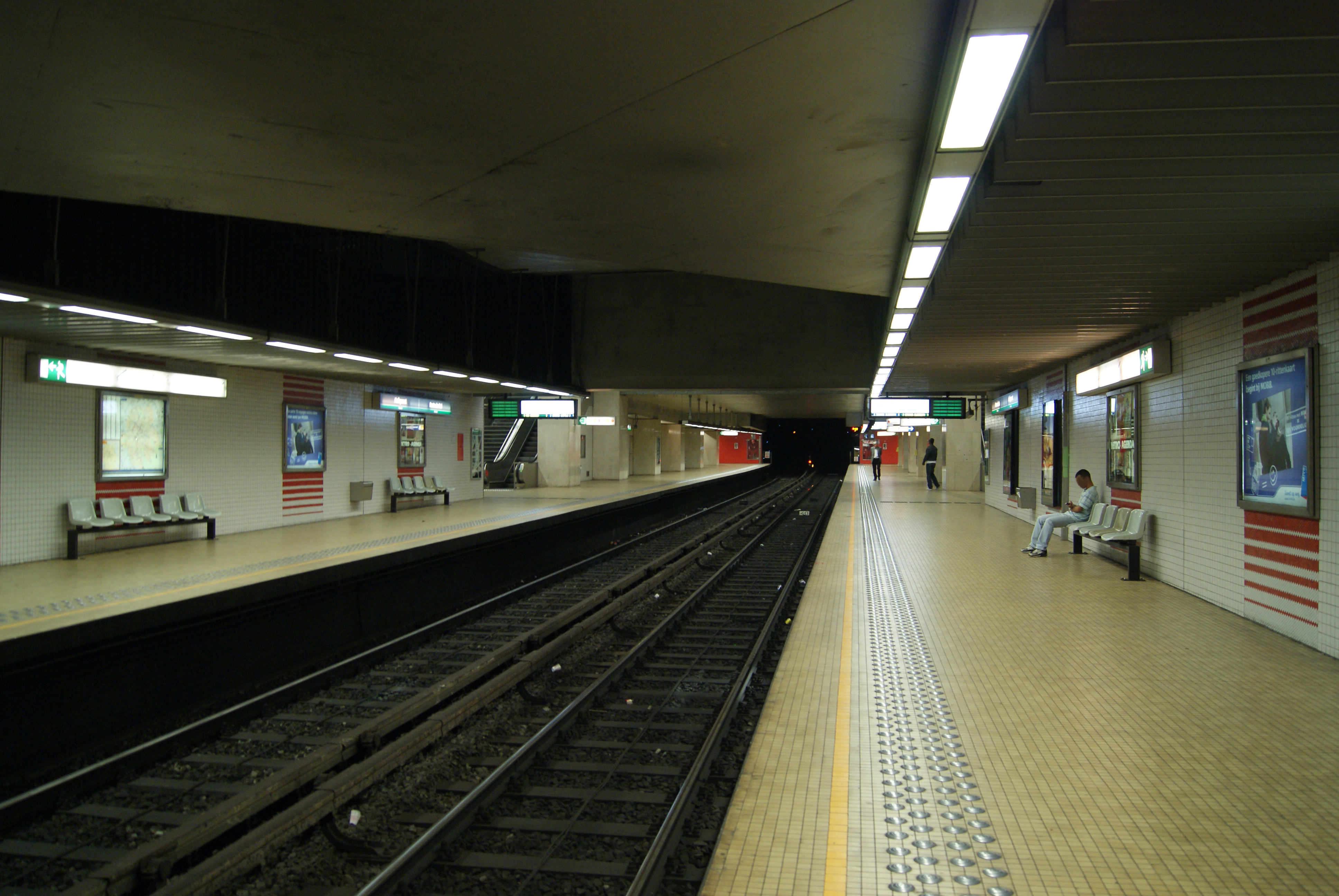 Platforms of line 2 in Hallepoort / Porte de Hal station, Brussels metro. The mans face has been digitally removed in order to protect his privacy.